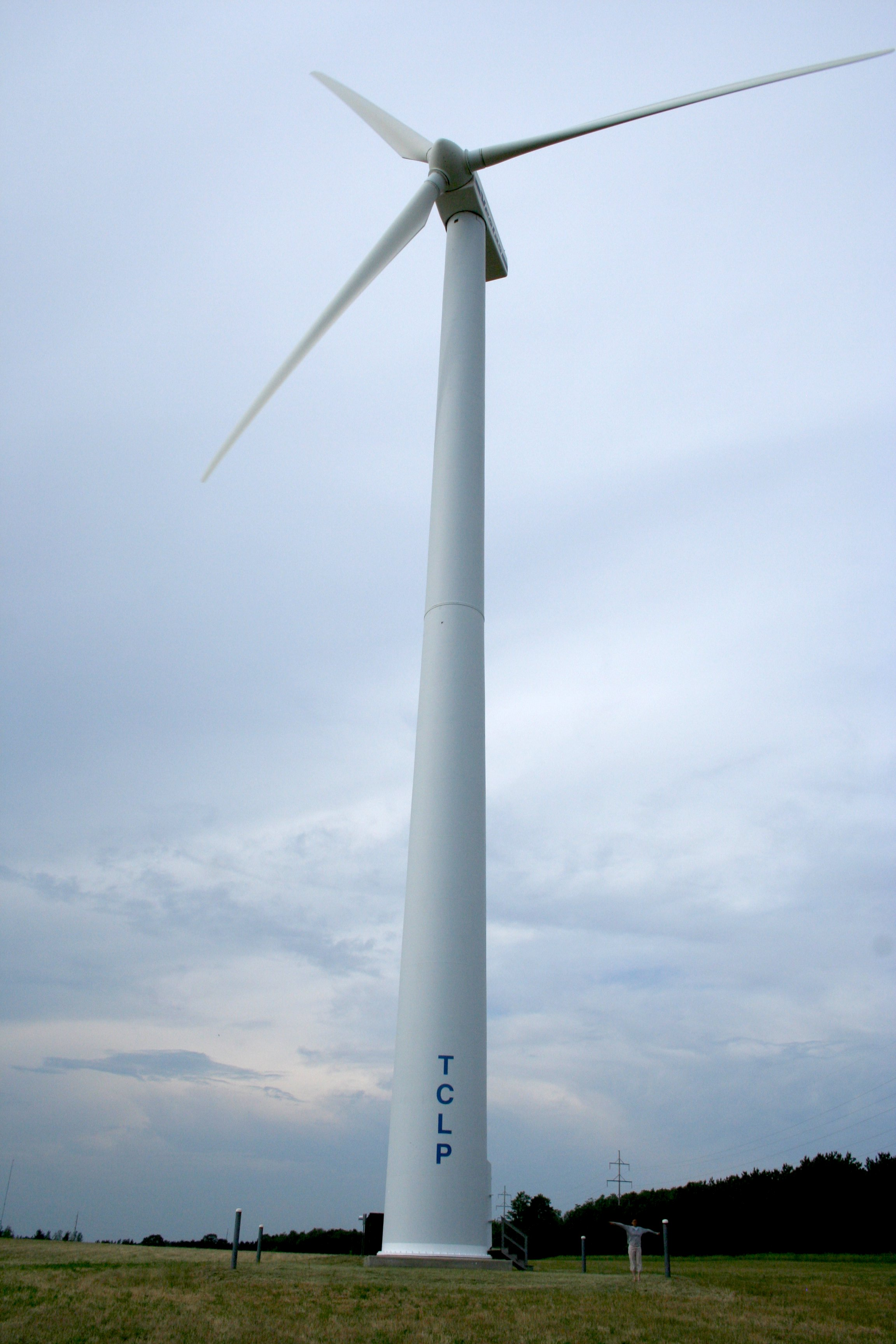 Traverse City, Michigan installed one Vestas V44-600 kW wind turbine in 1996.